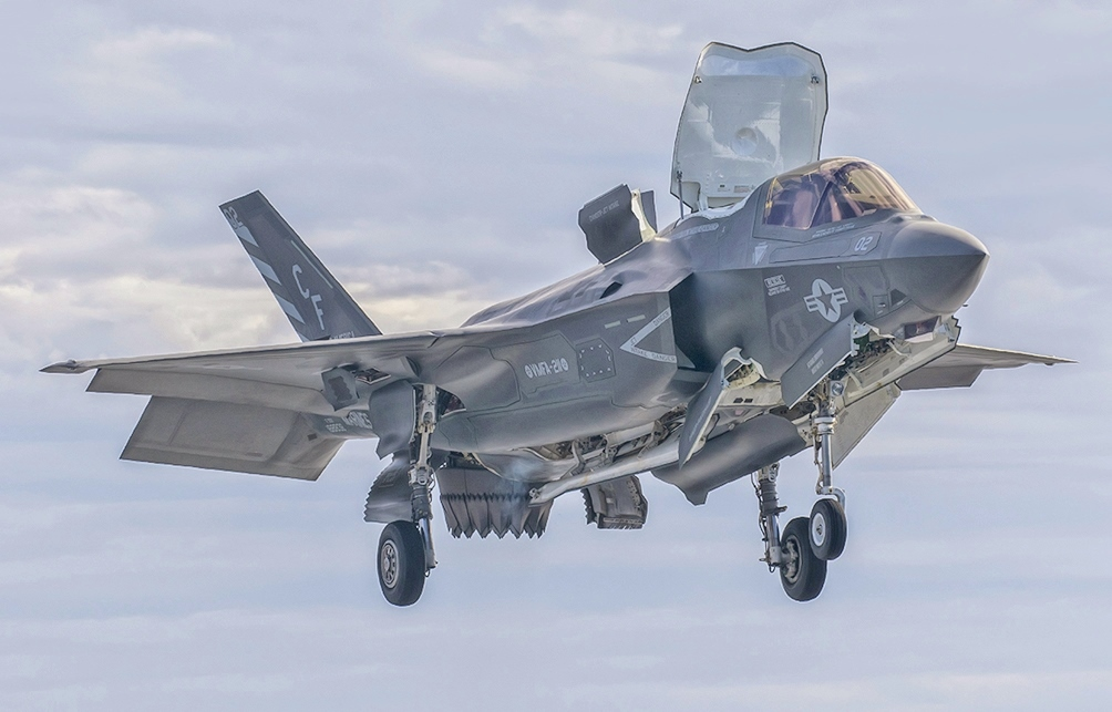 F-35B of USMC VMFA-211 hovers aside the USS America as it prepares for a vertical landing on deck during the integrated USN/USMC proof of concept demonstration November 19, 2016.